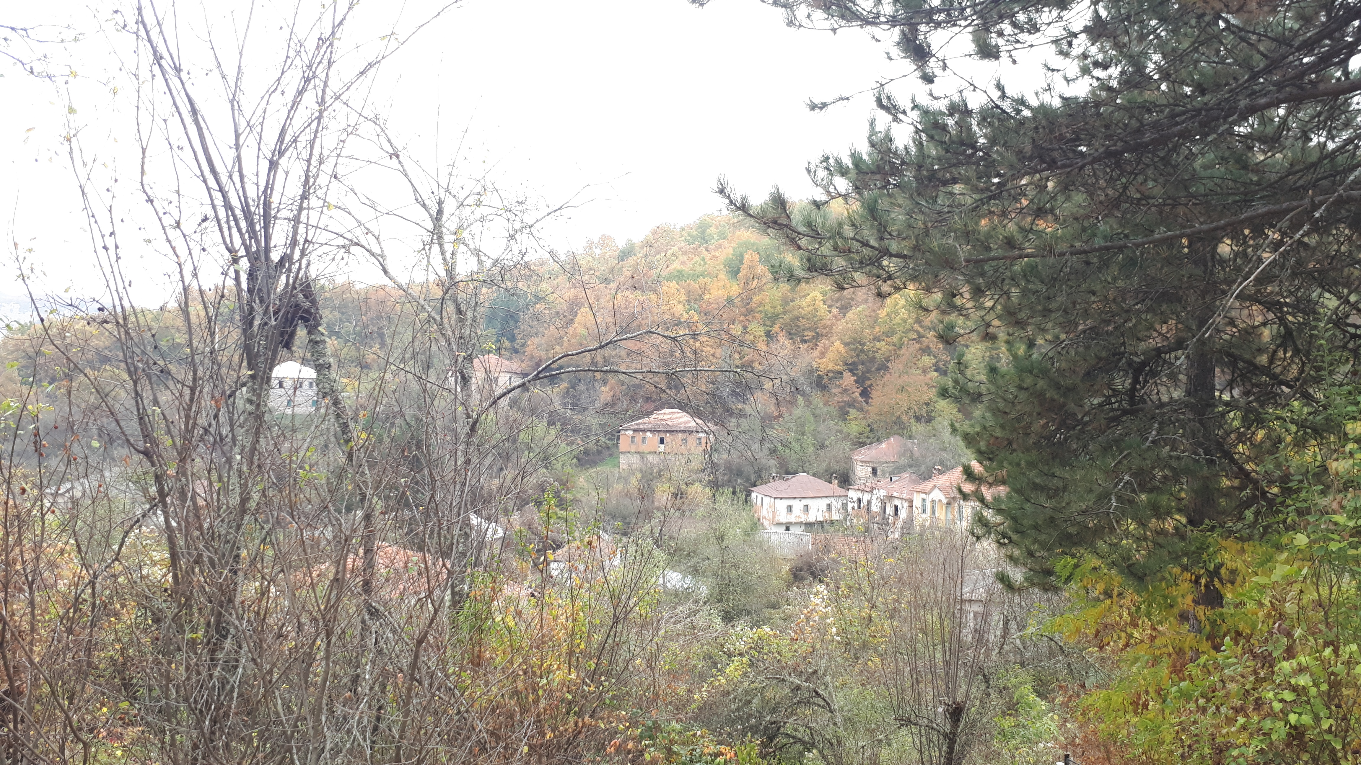 View of the village Golemo Crsko